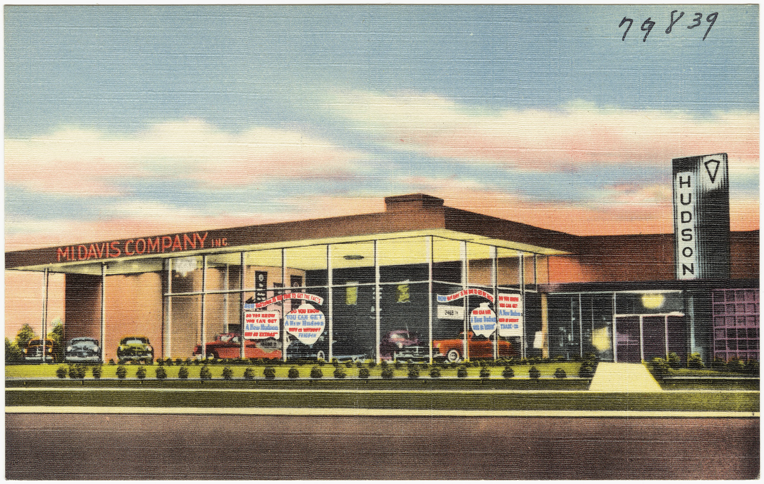 File name: 06_10_014202a Title: M. I. Davis Company Inc. (maybe Shreveport, Louisiana, not Michigan) Created/Published: Nationwide Post Card Company, Tyler, Texas Date issued: 1930 - 1945 (approximate) Physical description: 1 print (postcard) : linen texture, color ; 3 1/2 x 5 1/2 in. Genre: Postcards Subject: Commercial facilities Notes: Title from item. Collection: The Tichnor Brothers Collection Location: Boston Public Library, Print Department Rights: No known restrictions